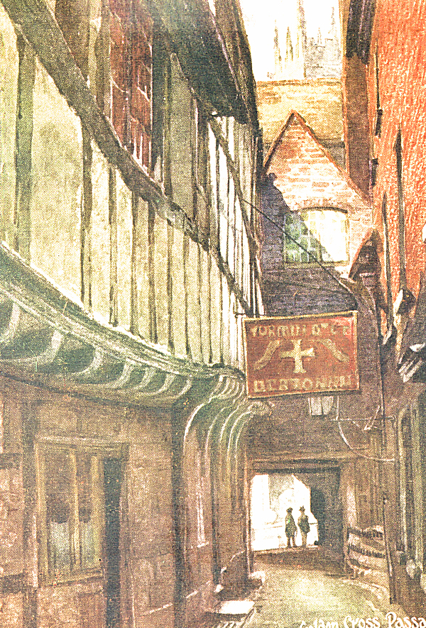 Watercolour historical impression of the Golden Cross Passage and hotel